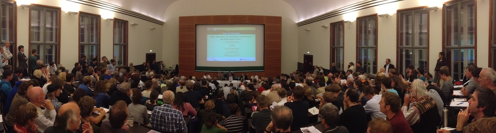 panel discussion on conference 2012 of Vereinigung für Ökologische Ökonomie